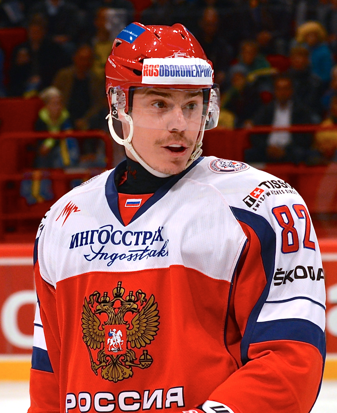 Jevgenij Medvedev during Oddset Hockey Games against Russia (2-0) at the Ericsson Globe in Stockholm on May 4th, 2014.